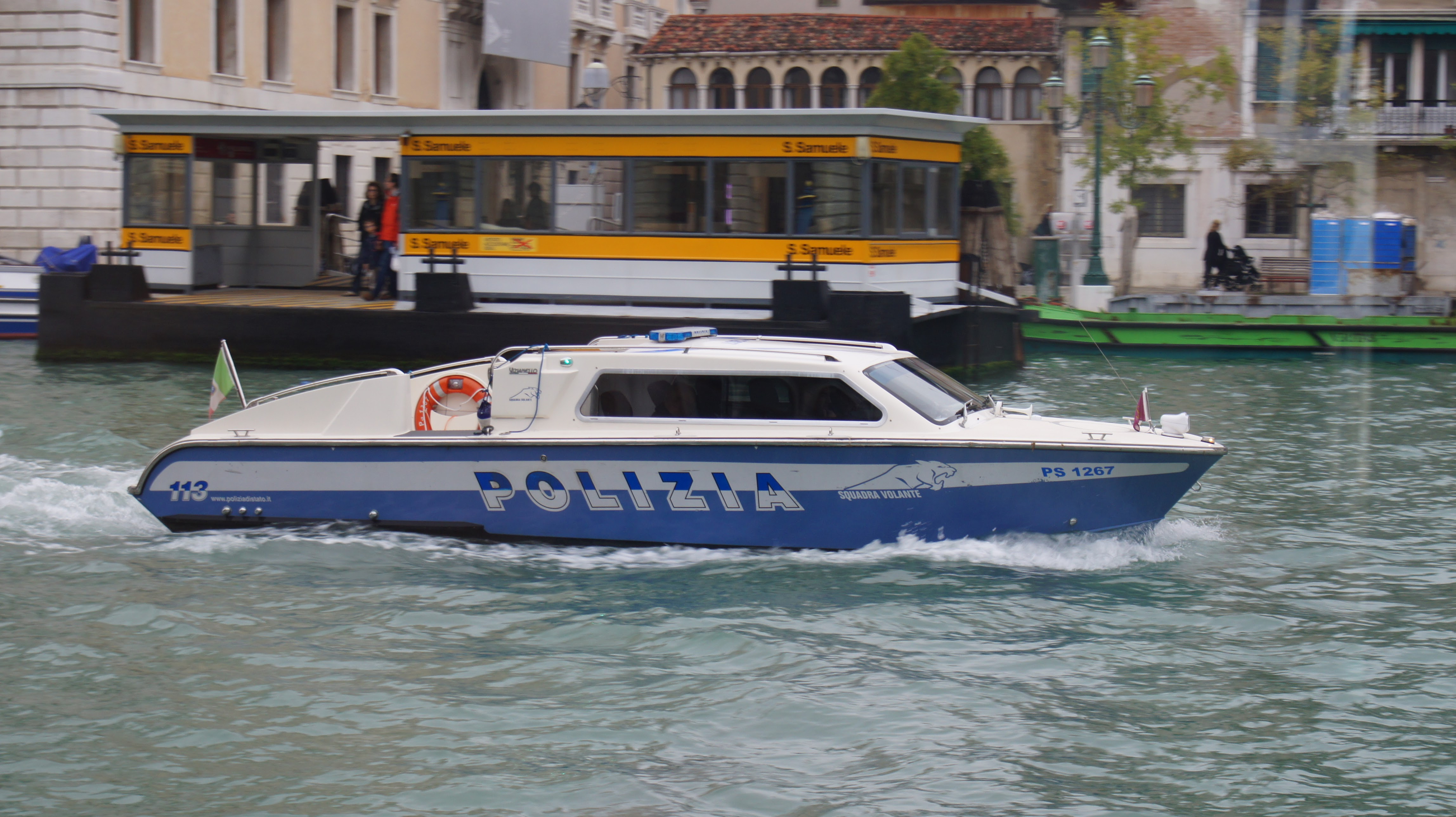 Boat PS 1267 in Venice - somehow by fluke really got a sharp shot with background blurred, looks pretty good. Just outside San Samuele boat (vaporetto) stop